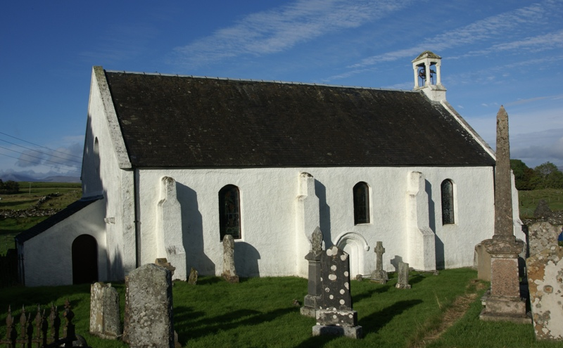 St Moluag's Cathedral, Lismore, Scotland. View from the south.